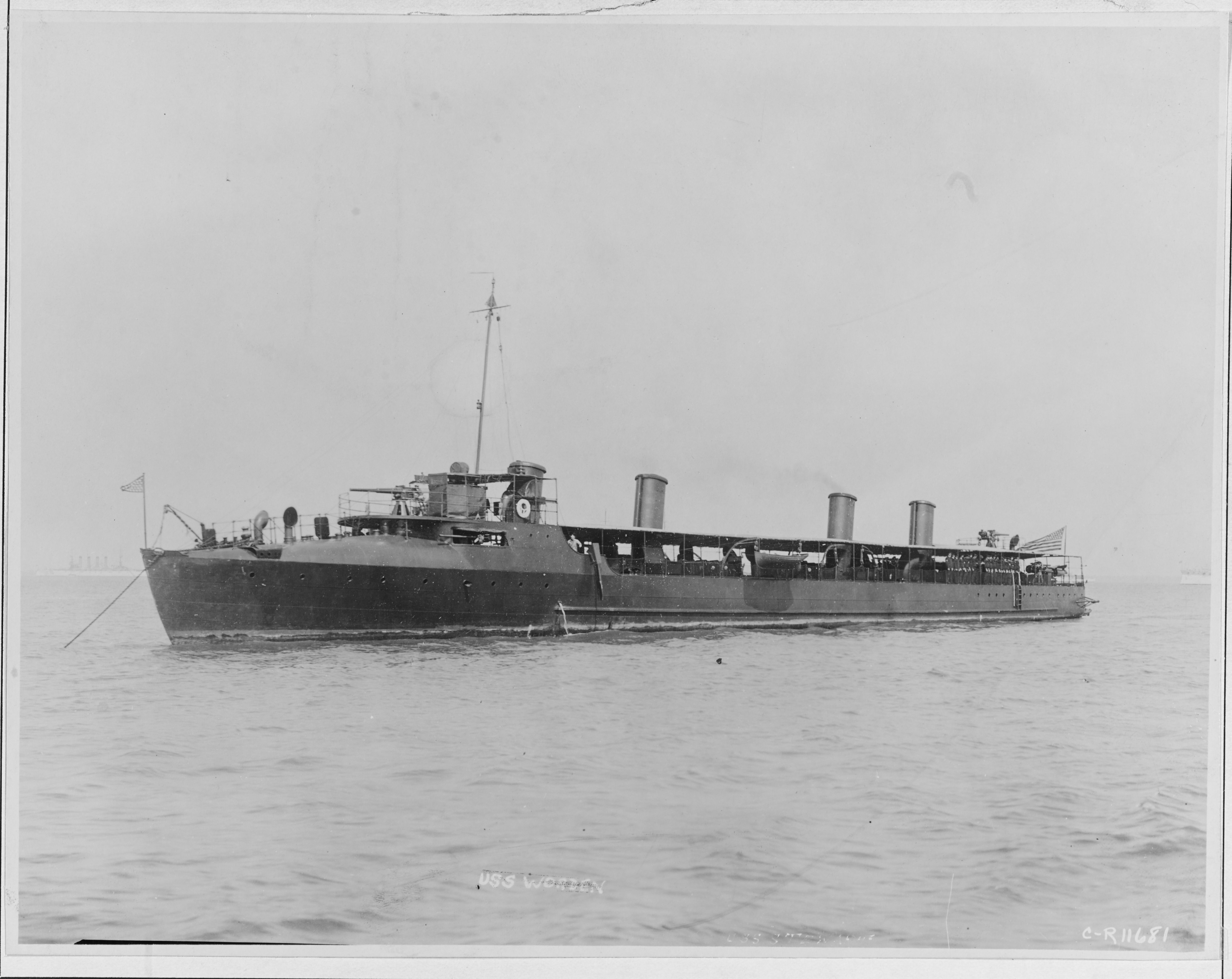 (Torpedo Boat Destroyer # 1) At anchor, possibly in the Hampton Roads, Virginia, area in 1907. An armored cruiser is visible in the left distance. U.S. Naval History and Heritage Command Photograph.